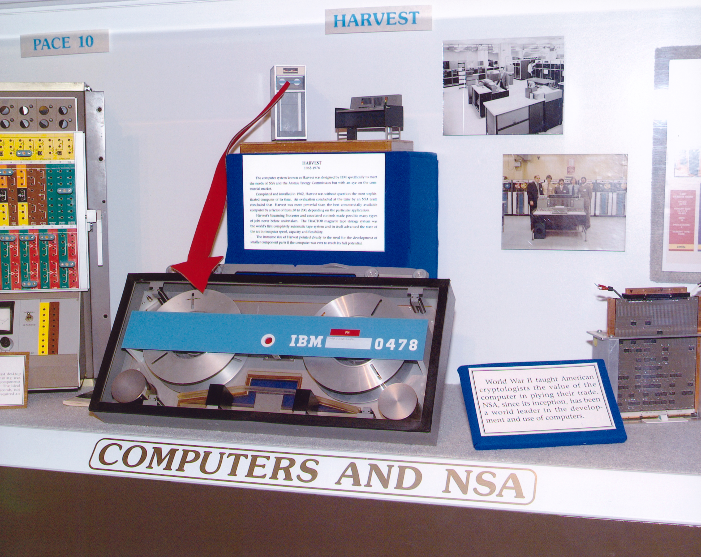 An IBM 0478 tape cartridge from the IBM 7955 magnetic tape system, also known as TRACTOR, used in the IBM 7950 HARVEST computer. The information card in the photo reads: The computer system known as Harvest was designed by IBM specifically to meet the needs of NSA and the Atomic Energy Commission but with an eye on the commercial market.Completed and installed in 1962, Harvest was without question the most sophisticated computer of its time. An evaluation conducted at the time by an NSA team concluded that Harvest was more powerful than the best commercially available computer by a factor of from 50 to 200, depending on the particular application.Harvest's Streaming Processor and associated controls made possible many types of jobs never before undertaken. The TRACTOR magnetic tape storage system was the world's first completely automatic tape system and in itself advanced the state of the art in computer speed, capacity and flexibility.The immense size of Harvest pointed clearly to the need for the development of smaller component parts if the computer was ever to reach its full potential.